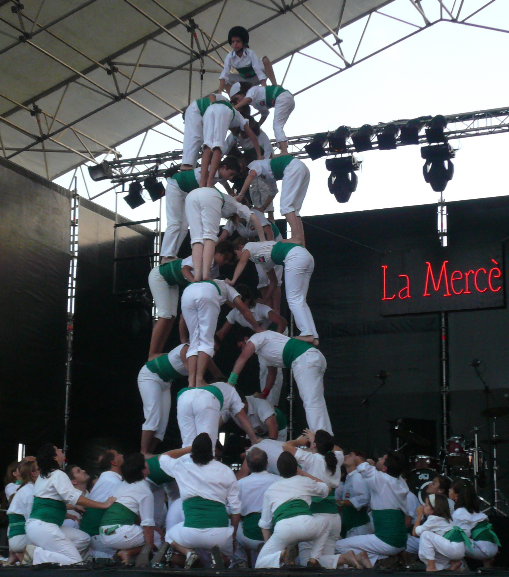 Falcons de Vilafranca in Barcelona